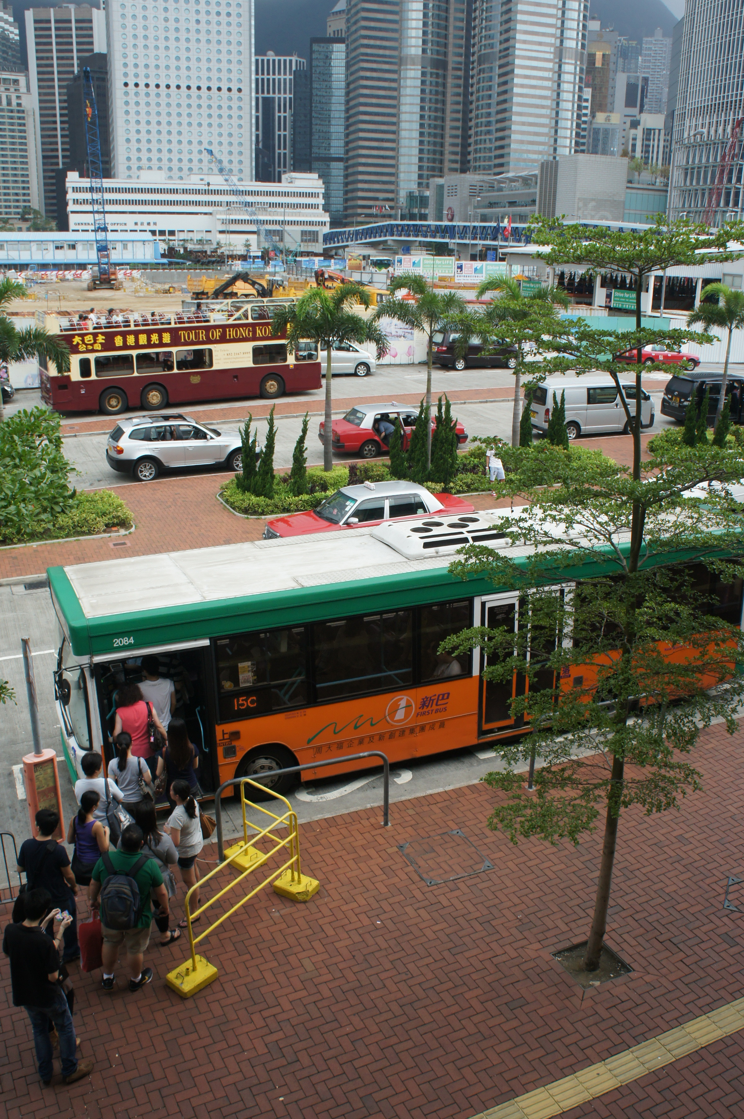 Passengers boarding a New World First Bus Route 15C bus at Man Kwong Street outside Central Pier 8 (Central (Star Ferry) Terminus).